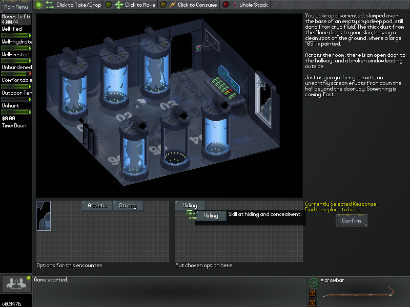 A screenshot from the video game NEO Scavenger.